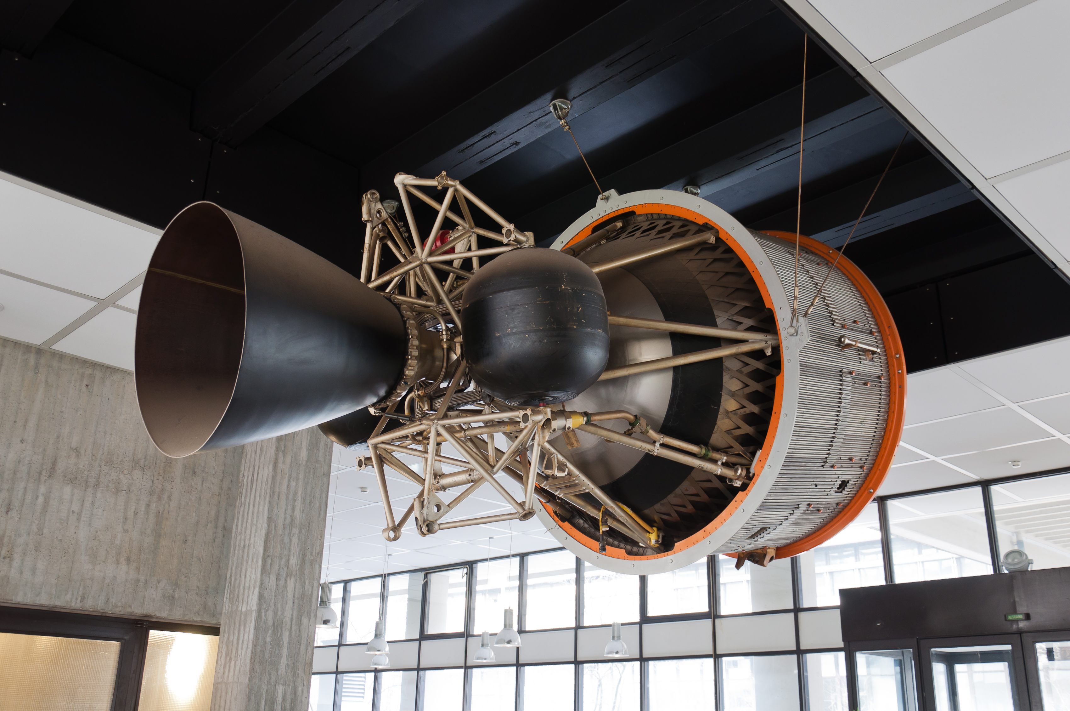 Astris, the third (upper) stage of the Europa I rocket, on display in Pfaffenwaldring 31 (V 31) on the campus of University of Stuttgart in Vaihingen, Stuttgart, Germany. Astris was developed by ERNO and MBB and built by Messerschmitt-Bölkow-Blohm (MBB) and ERNO in Germany.